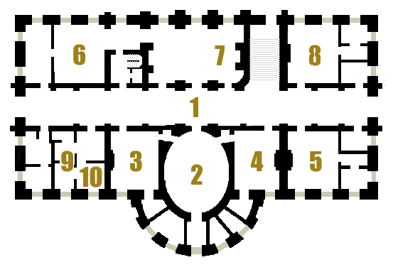 Floor plan of the White House basement floor.